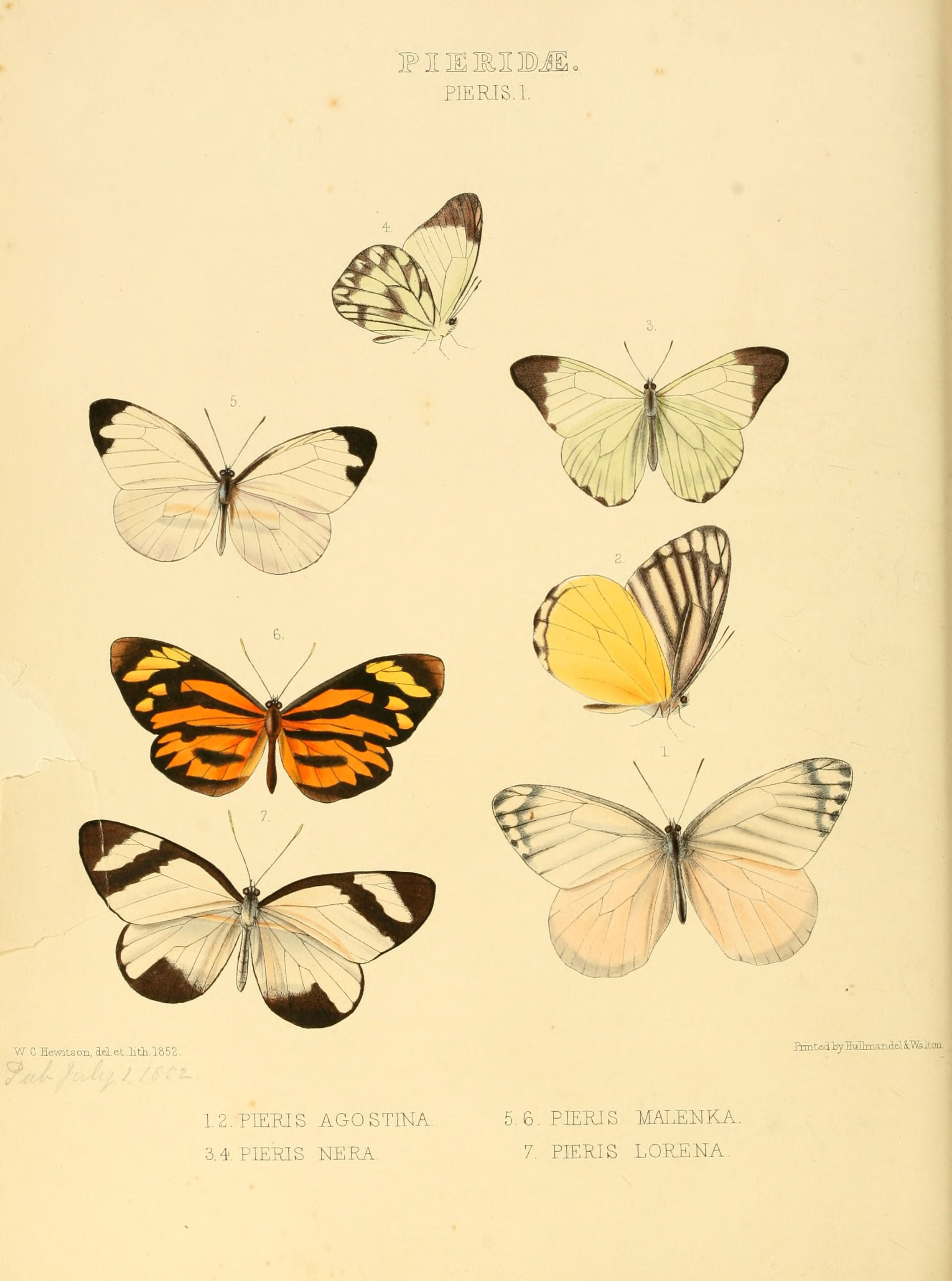 Plate: Pieris I Pieris agostina. Figs. 1, 2. Accepted as Delias agostina (Hewitson, 1852). Pieris nera. Figs. 3, 4. Accepted as Hesperocharis nera (Hewitson, 1852). Pieris malenka. Figs. 5 (male), 6 (female). Accepted as Perrhybris pamela (Stoll, 1780). Pieris lorena. Fig. 7. Accepted as Perrhybris lorena (Hewitson, 1852).